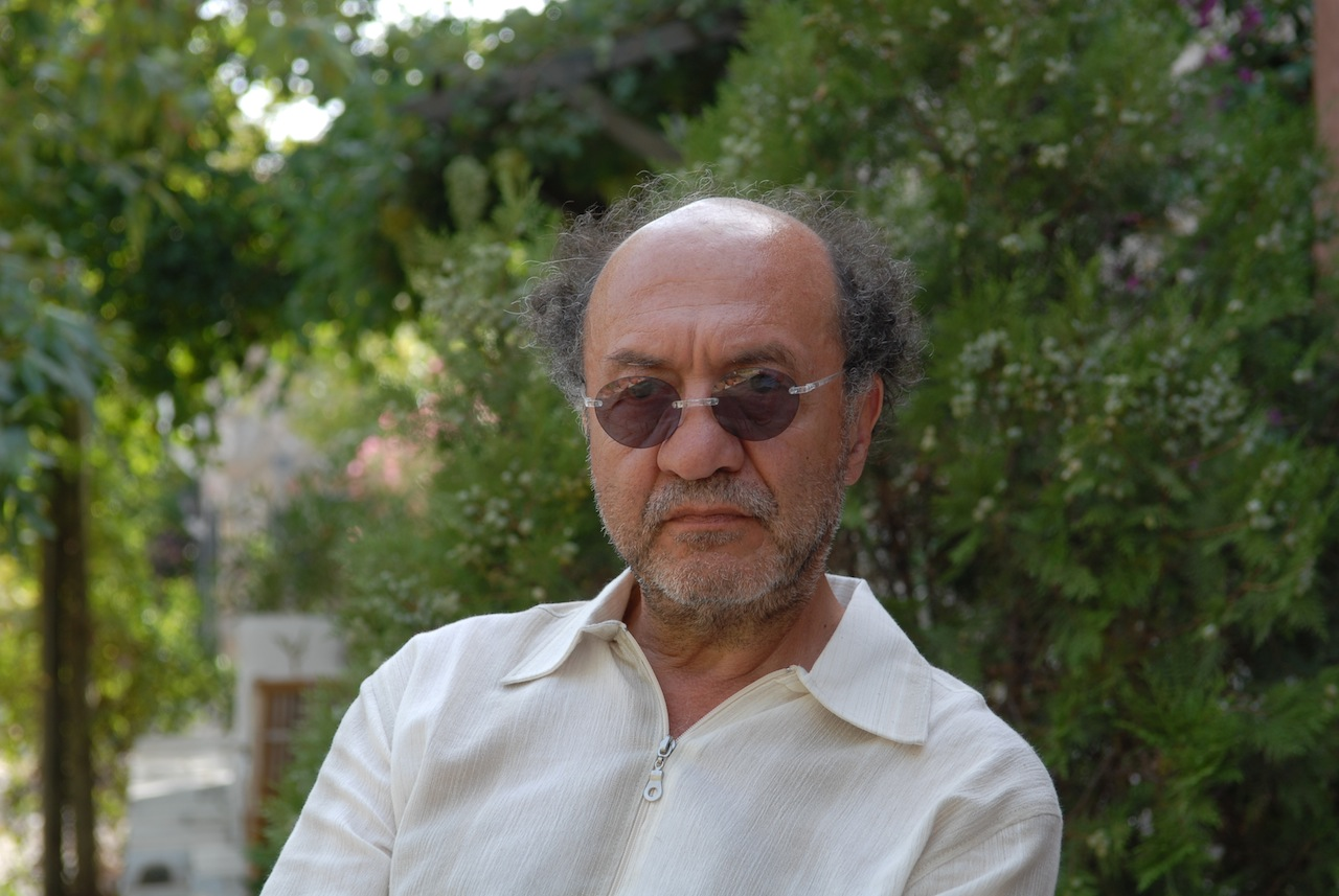 A picture of the artist Sarkis, taken in 2006.